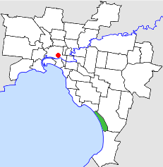 Location of the City of Chelsea within Melbourne.